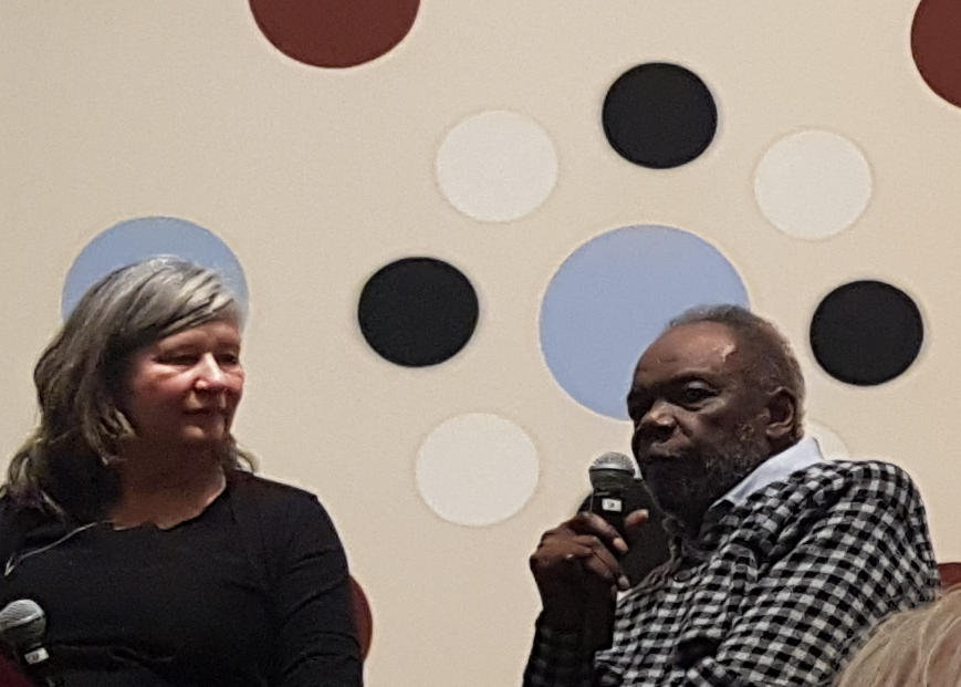 Sam Gilliam speaking at AU Katzen Center, 2018